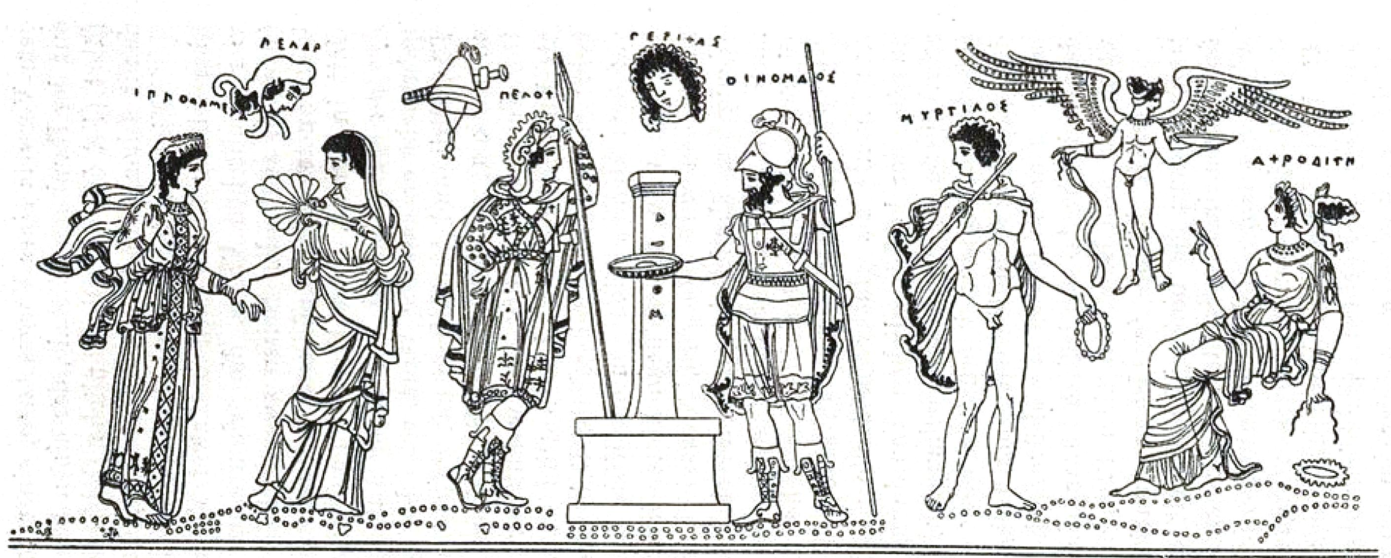 Attributed to The Varrese Painter